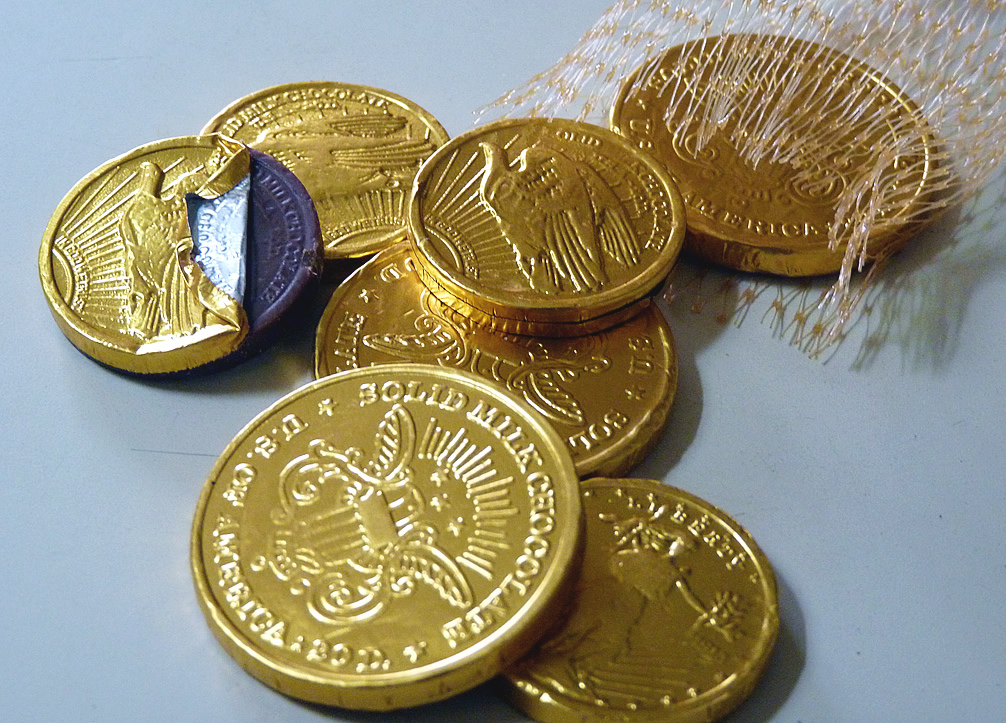 Chocolate Coins